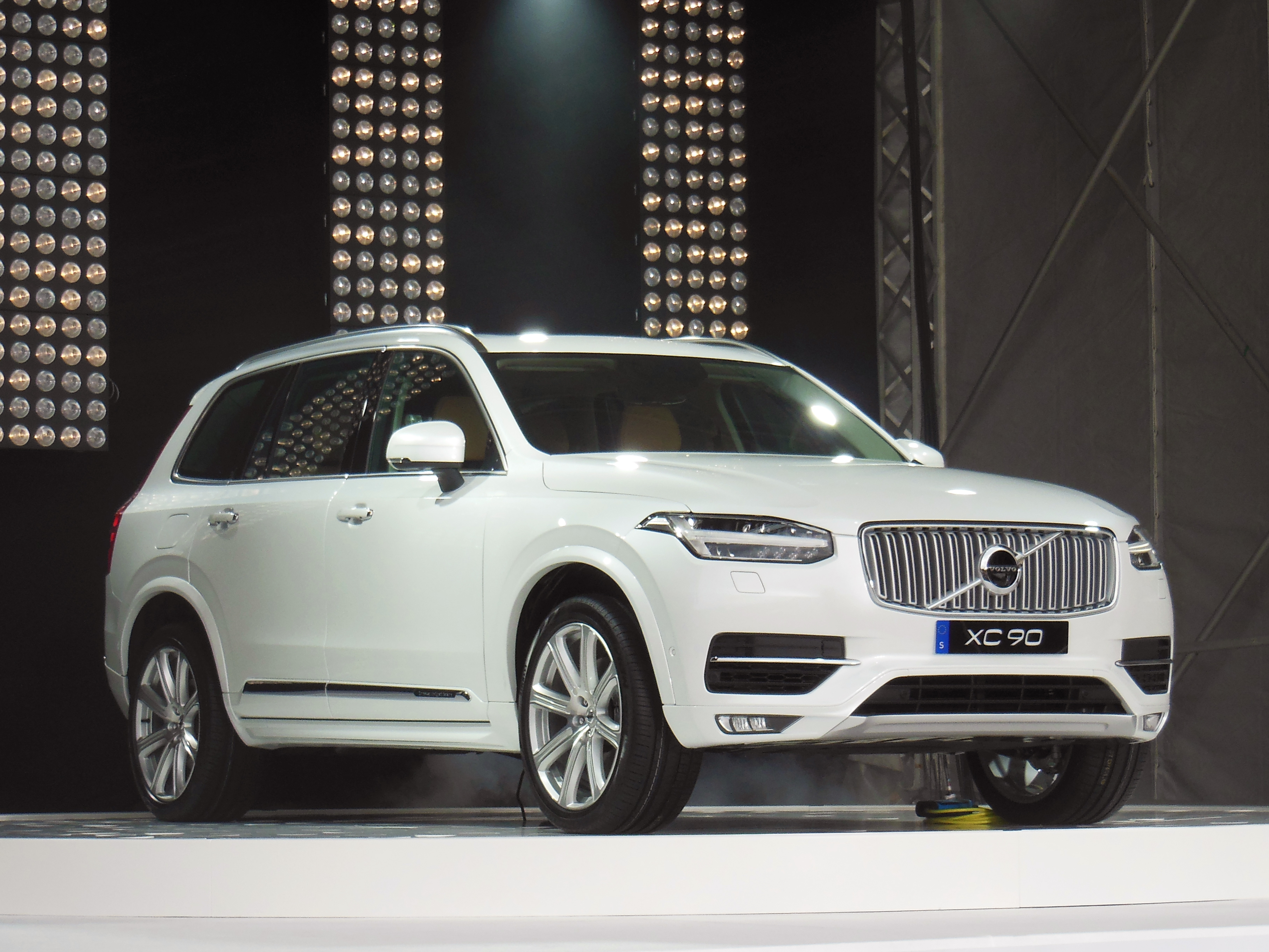 The second version of Volvo XC90 is presented at Gustaf Adolfs torg in Gothemburg, 31 August 2014.